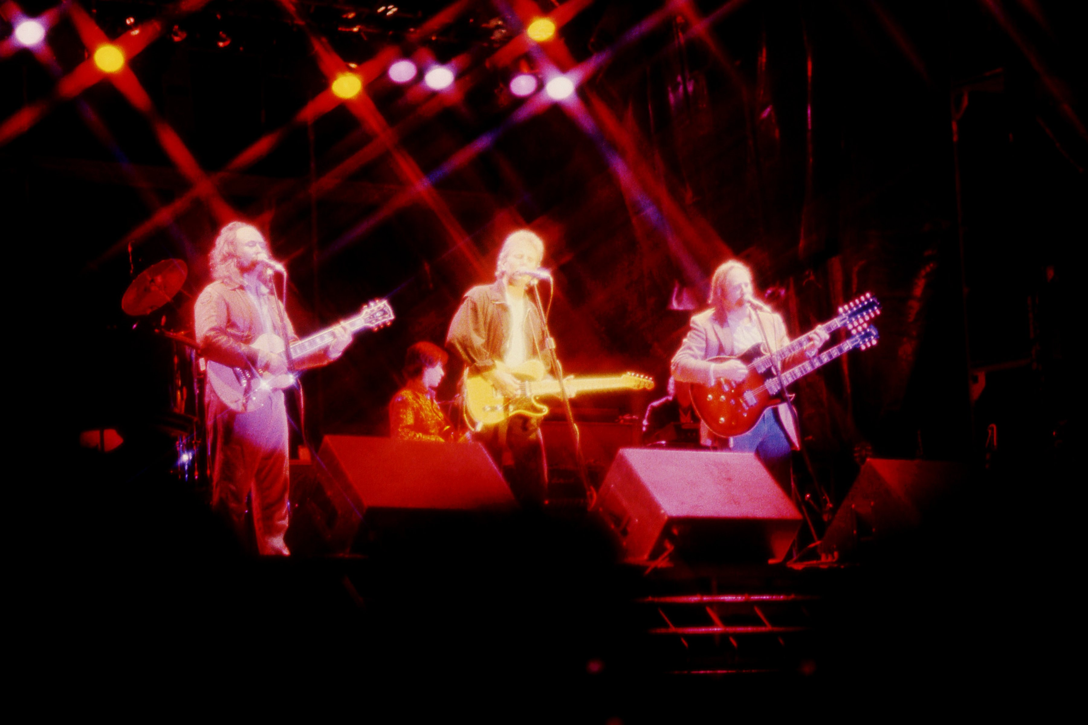 Crosby, Stills and Nash pictured on June 17 1983 during an open-air festival in the "Georg-Melches-Stadion" (a soccer stadium) in Essen, Germany.